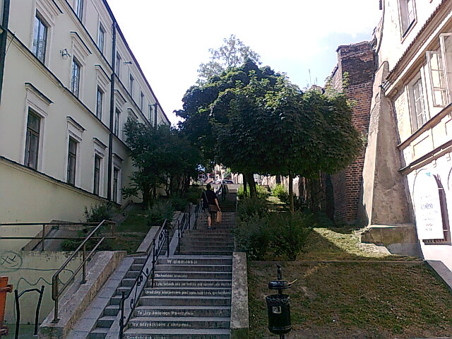 Hartwig Alley in Lublin (August 2012)